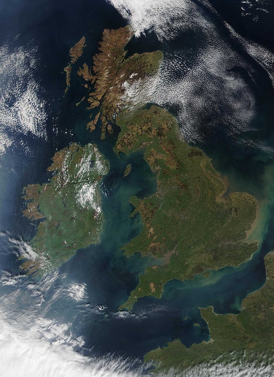 Satellite view of the United Kingdom and Ireland